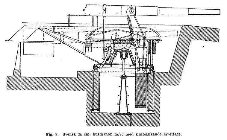 A Swedish 24-cm coast gun M1896 on a disappearing carriage